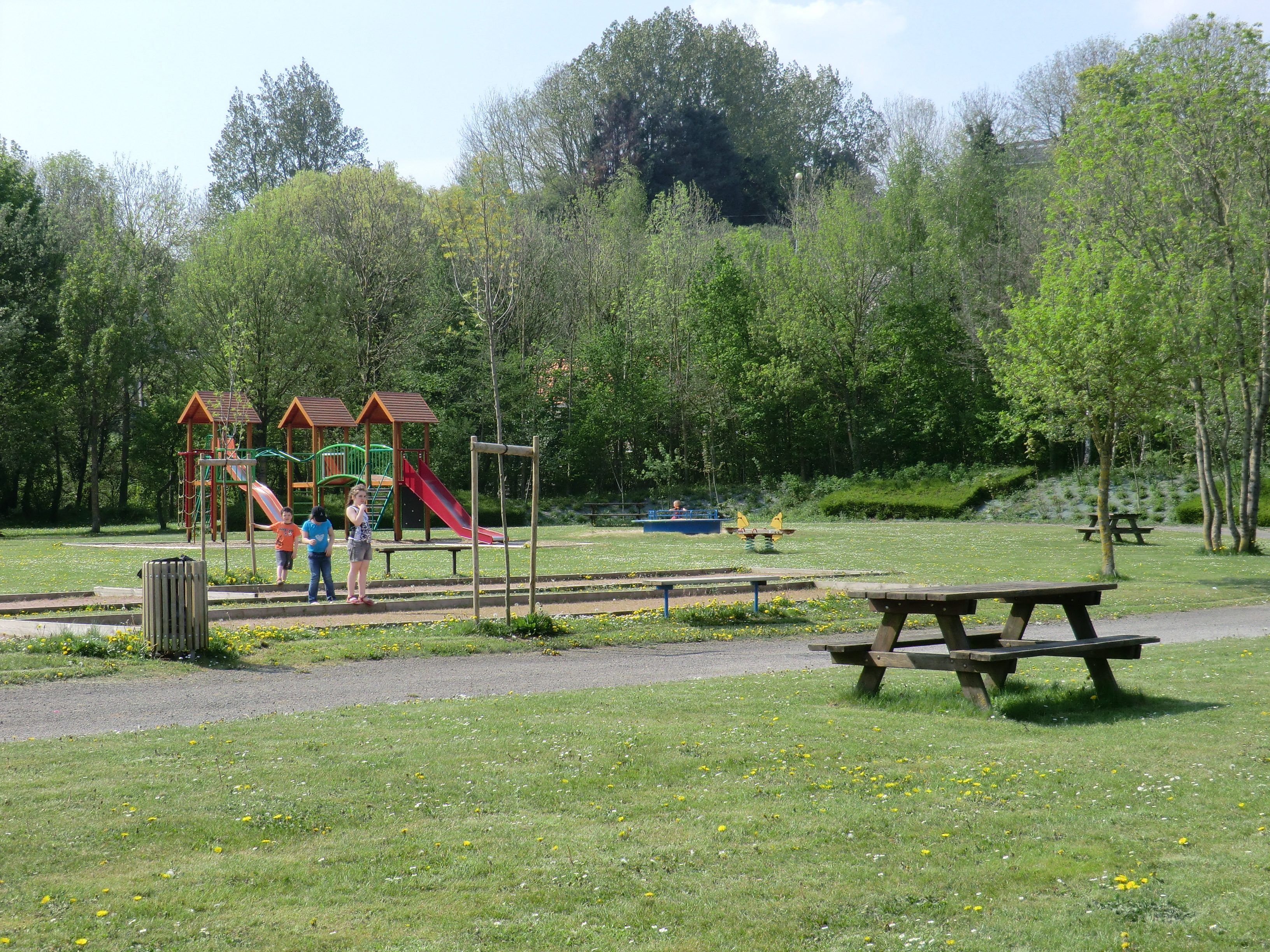 Park, Ferques, Pas-de-Calais, France.